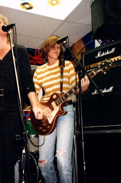 Ruthie Morris (right) performing at an in-store concert with Magnapop at Secret Sounds in Bridgeport, Connecticut, United States on 1994-11-15; Linda Hopper is cut off at the left